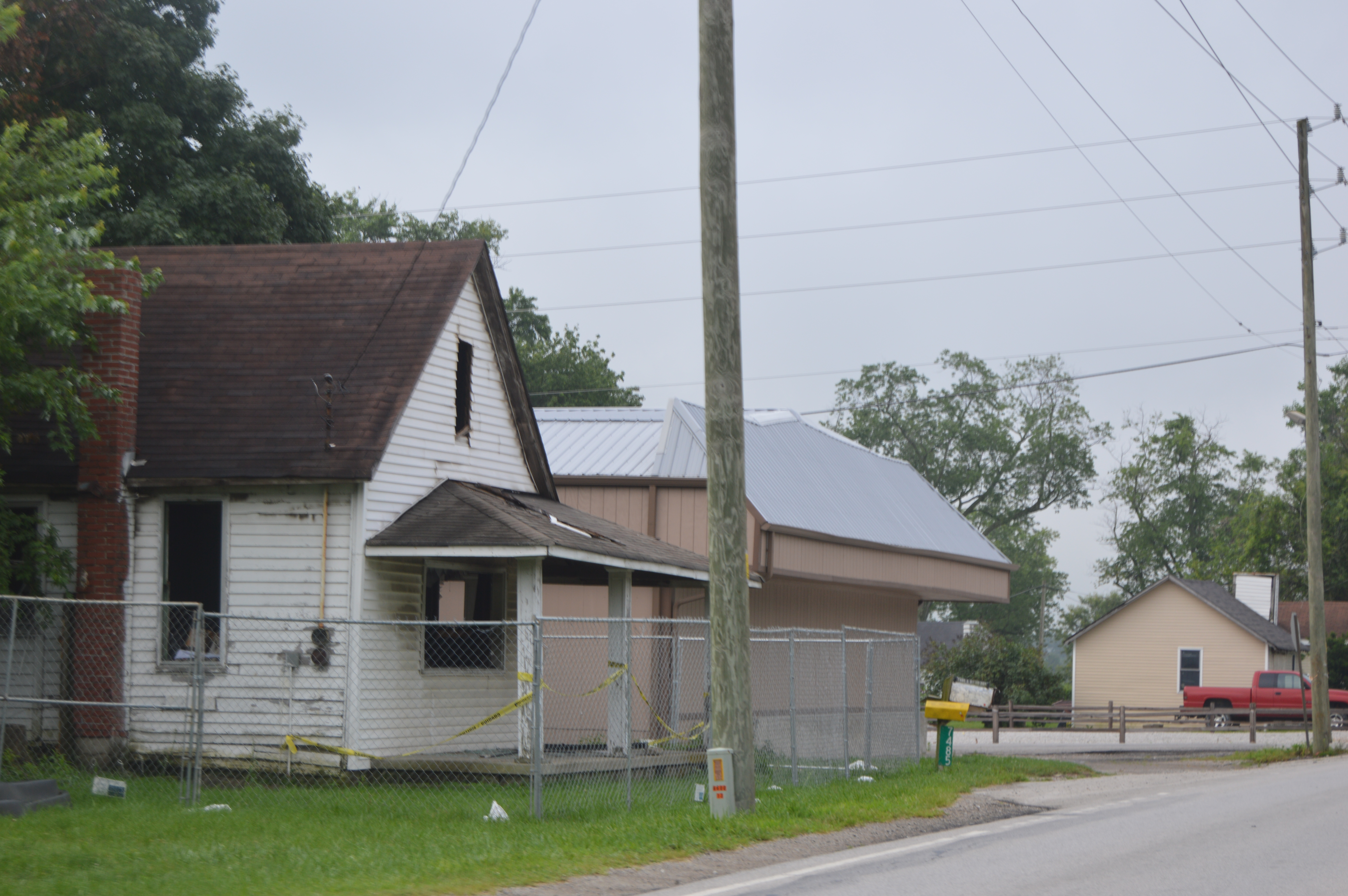 Buildings on the eastern side of State Road 267 immediately north of the junction with County Road 750S in Fayette, Indiana, United States.